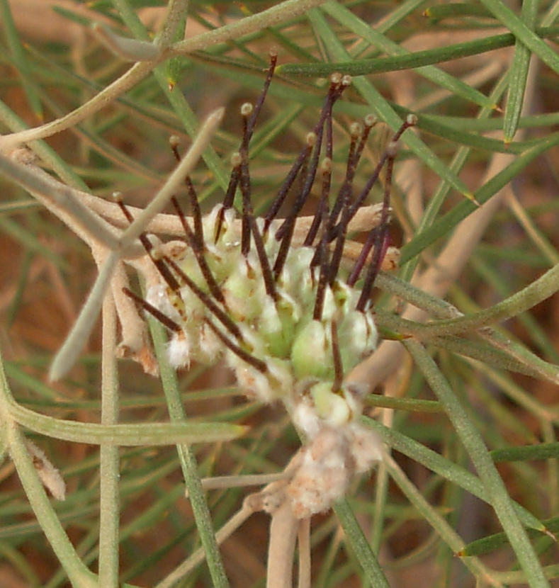 Grevillea hookeriana on a road in the Northam - Goomalling area